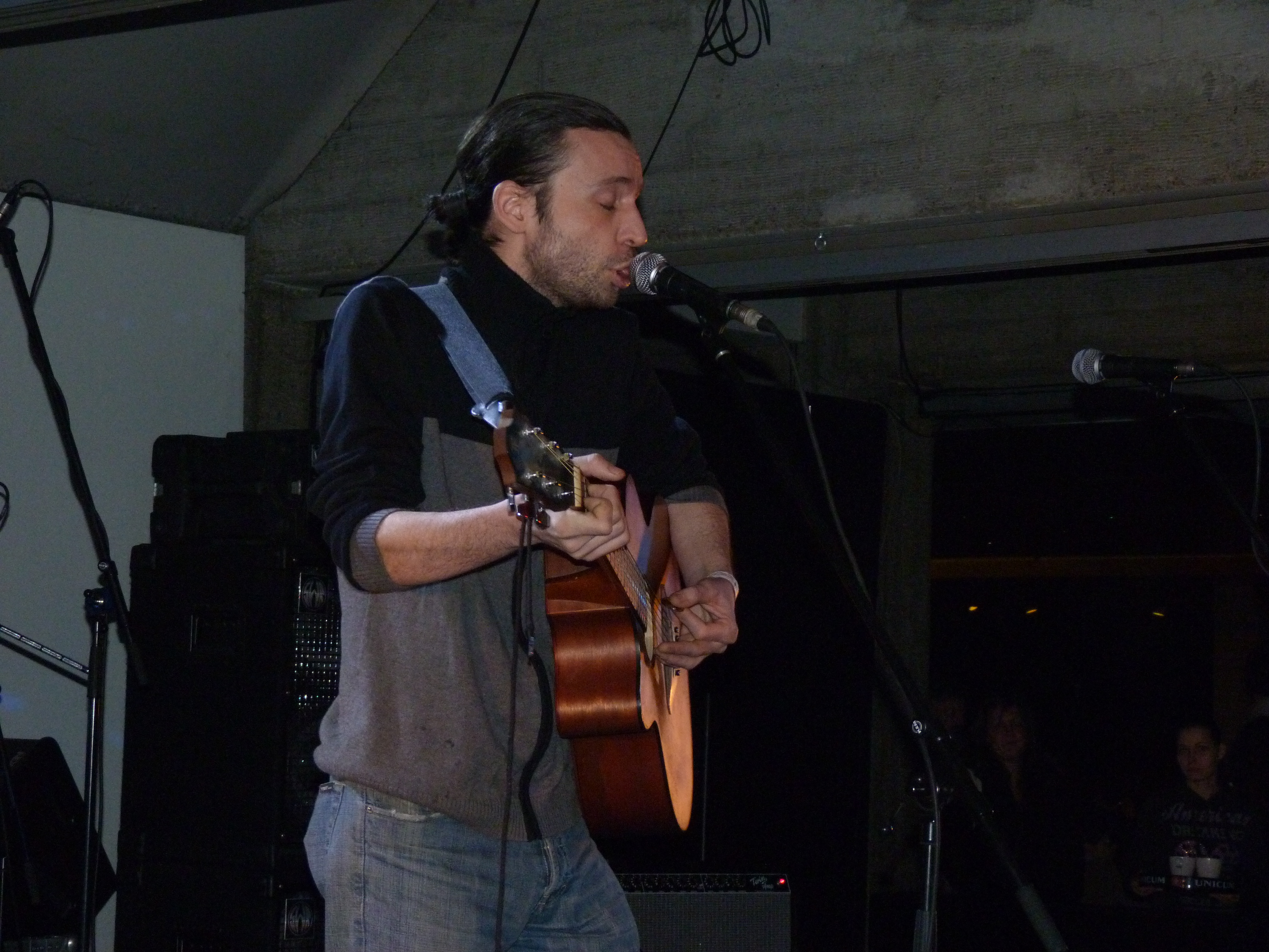 Live on the 29th of january, 2012. Downtown Budapest, Magyarország. Gödör Farewell Party (Víg Végnapjaink Fesztivál). Bérczesi Róbert.Published under Creative Commons in the Metapolisz DVD line. A felvételek 2012. január 29 -én készültek Budapest belvárosában, a Gödör Klubban. A Design Terminál 2012. február 1–től átvette a hely üzemeltetését. Az addigi üzemeltető szerződése január végén lejárt. Az új Akvárium nevű klub programszervezője a Volt Fesztivál és a Balaton Sound programigazgatója, Muraközy Péter lett. Filep Ákos, a hely addigi üzemeltetője a Gödör Klubnak új helyet keresett.Megjelent Creative Commons alatt a Metapolisz DVD sorozatban. Tags: Gödör Farewell Party Víg Végnapjaink Fesztivál 2012 január 29 Budapest Downtown Magyarország Metapolisz DVD line Források: Búcsú az Erzsébet tértől – Gödör Klub „Február 1-tól ez nem a mi helyünk" - megszűnik a Gödör